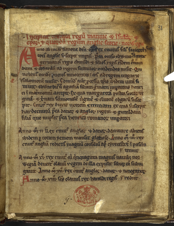 Folio from Cronica regum Mannie et insularum [Chronicle of the Kings of Mann and the Isles], AD 1000–1316. BL Cotton MS Julius A vii, f. 31r. Held and digitised by the British Library.